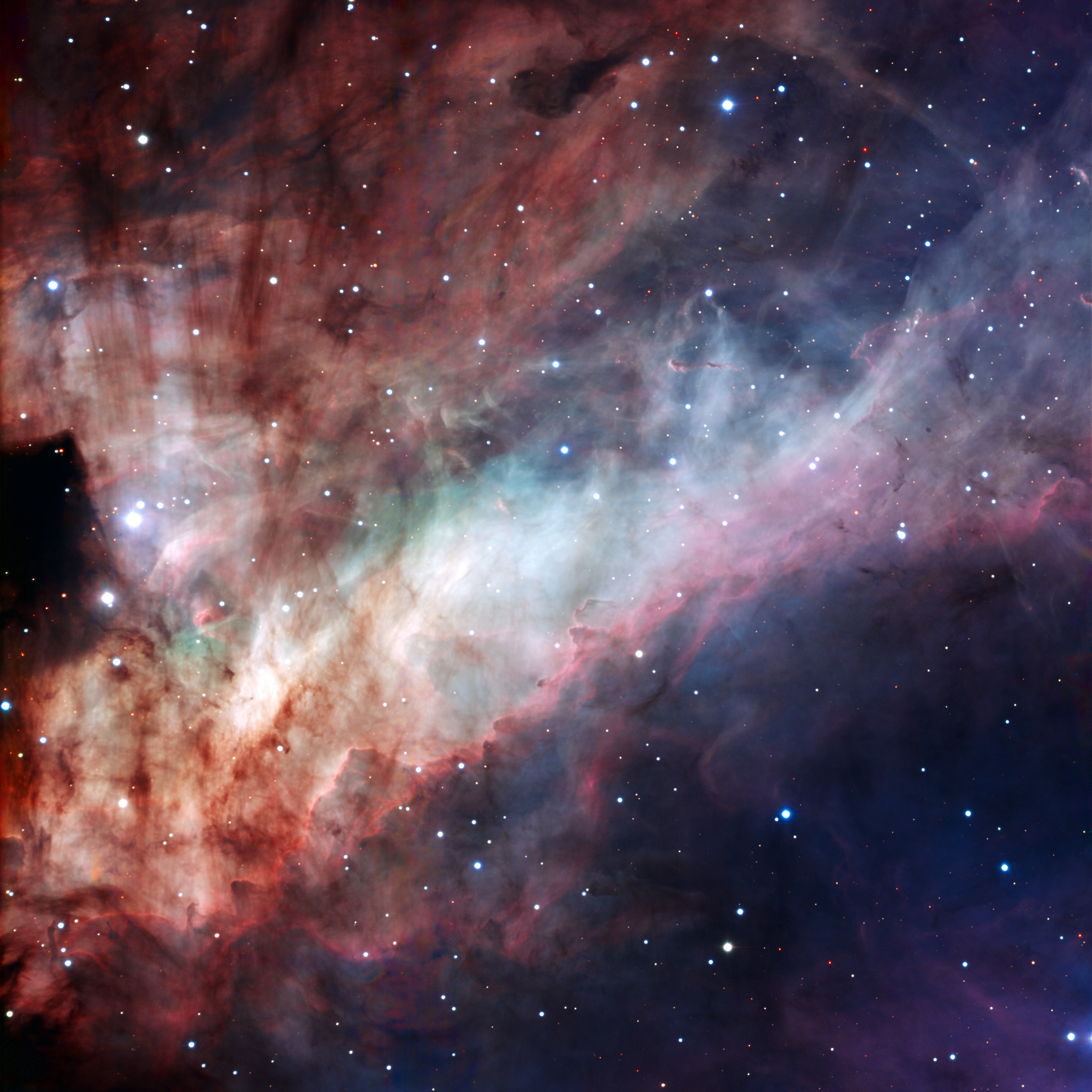 Three-colour composite image of the Omega Nebula (Messier 17, or NGC 6618), based on images obtained with the EMMI instrument on the ESO 3.58-metre New Technology Telescope at the La Silla Observatory. North is down and East is to the right in the image. It spans an angle equal to about one third the diameter of the Full Moon, corresponding to about 15 light-years at the distance of the Omega Nebula. The three filters used are B (blue), V ("visual", or green) and R (red).